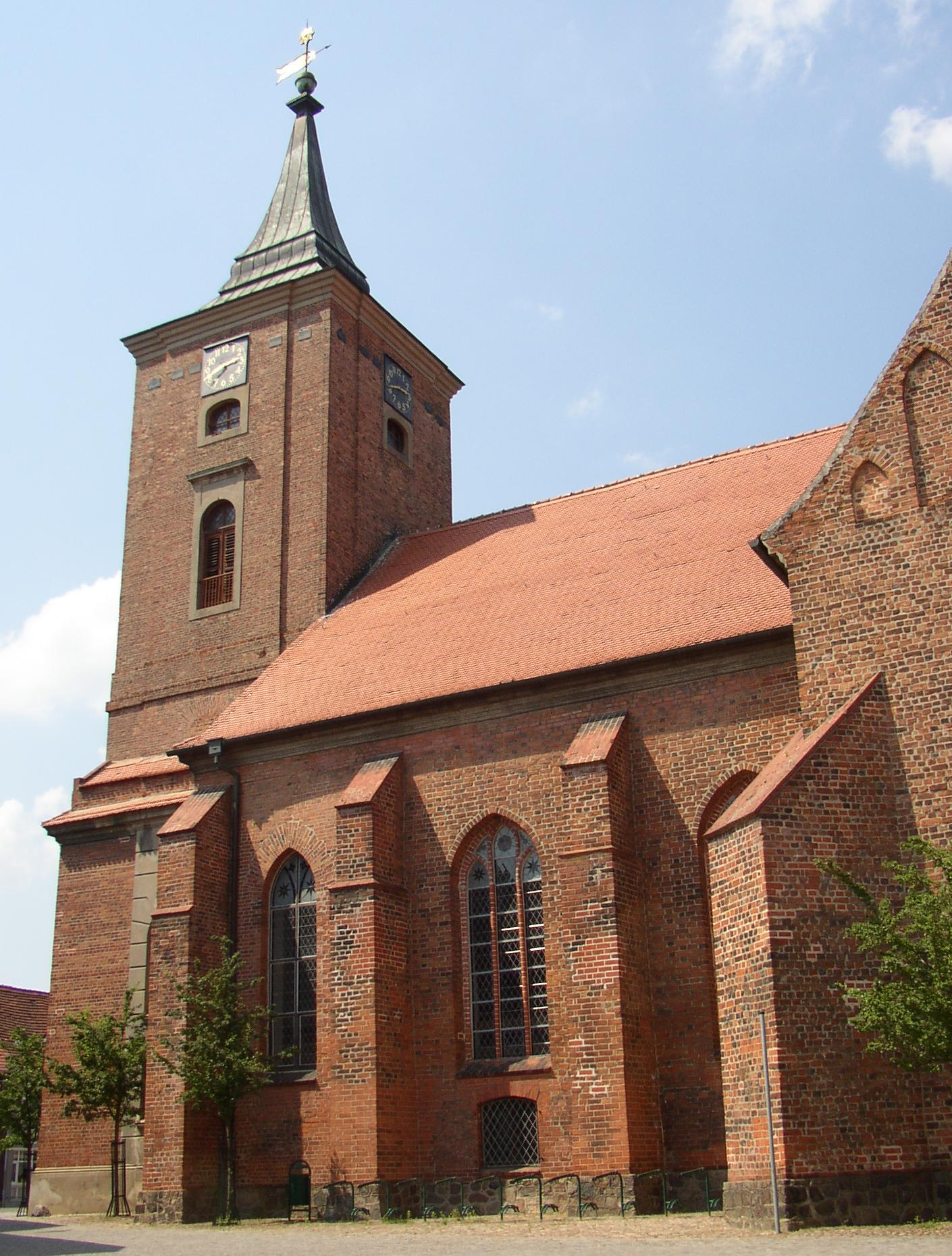 Church in Lenzen in Brandenburg, Germany